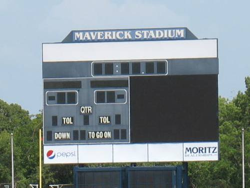 The scoreboard at Maverick Stadium, occupying the north end zone.